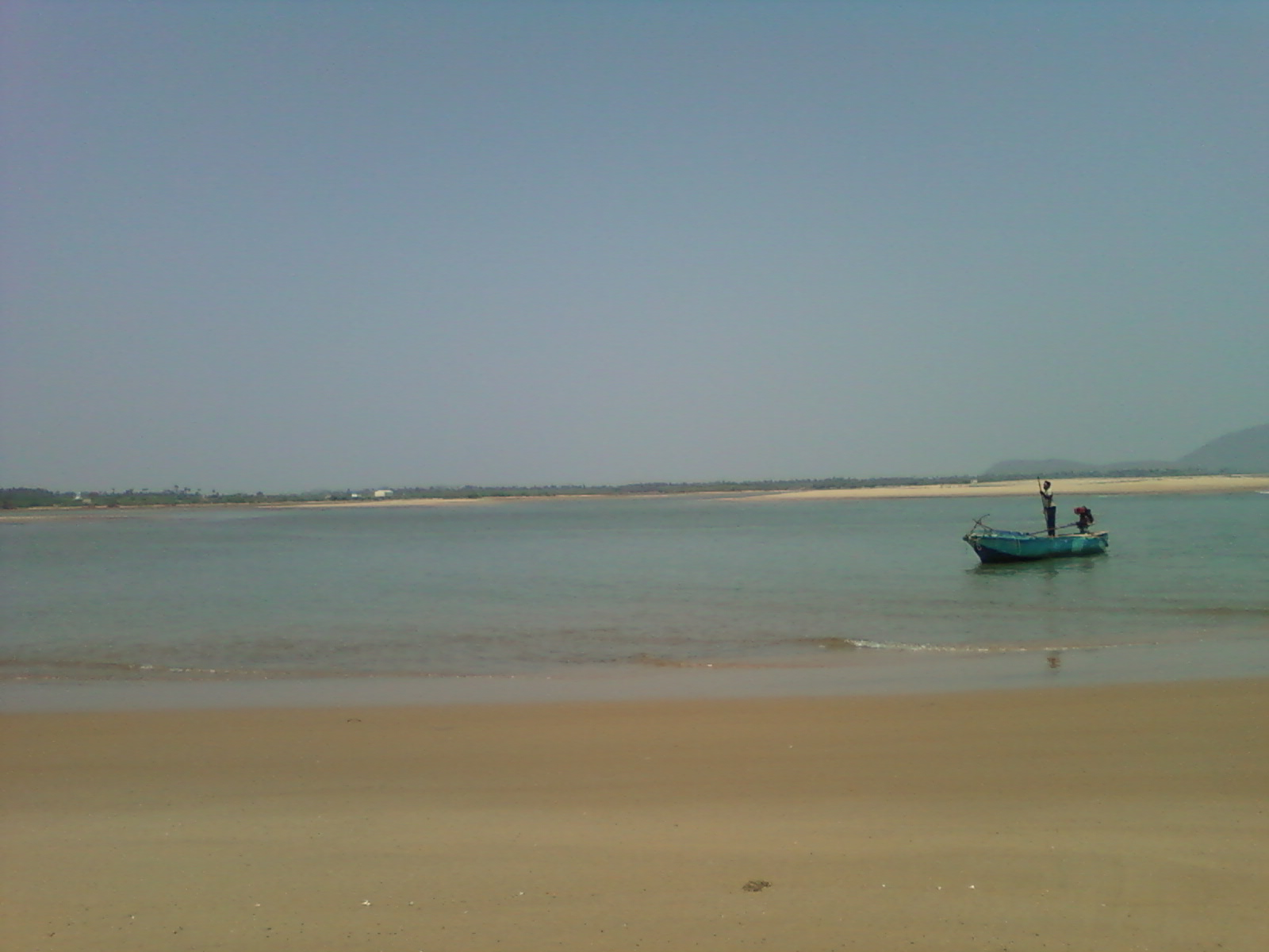 This is the point where river Gosthani confluences with bay of bengal at Bheemili